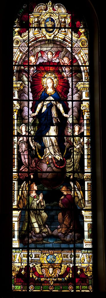 Stained glass window, Cathedral of the Immaculate Conception, Mobile, Alabama